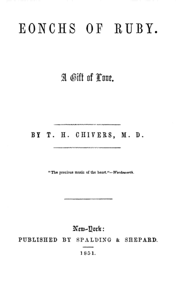 Title page of Eonchs of Ruby, collecting poems by American poet Thomas Holley Chivers. Published in 1851 by Spalding and Shephard in New York.